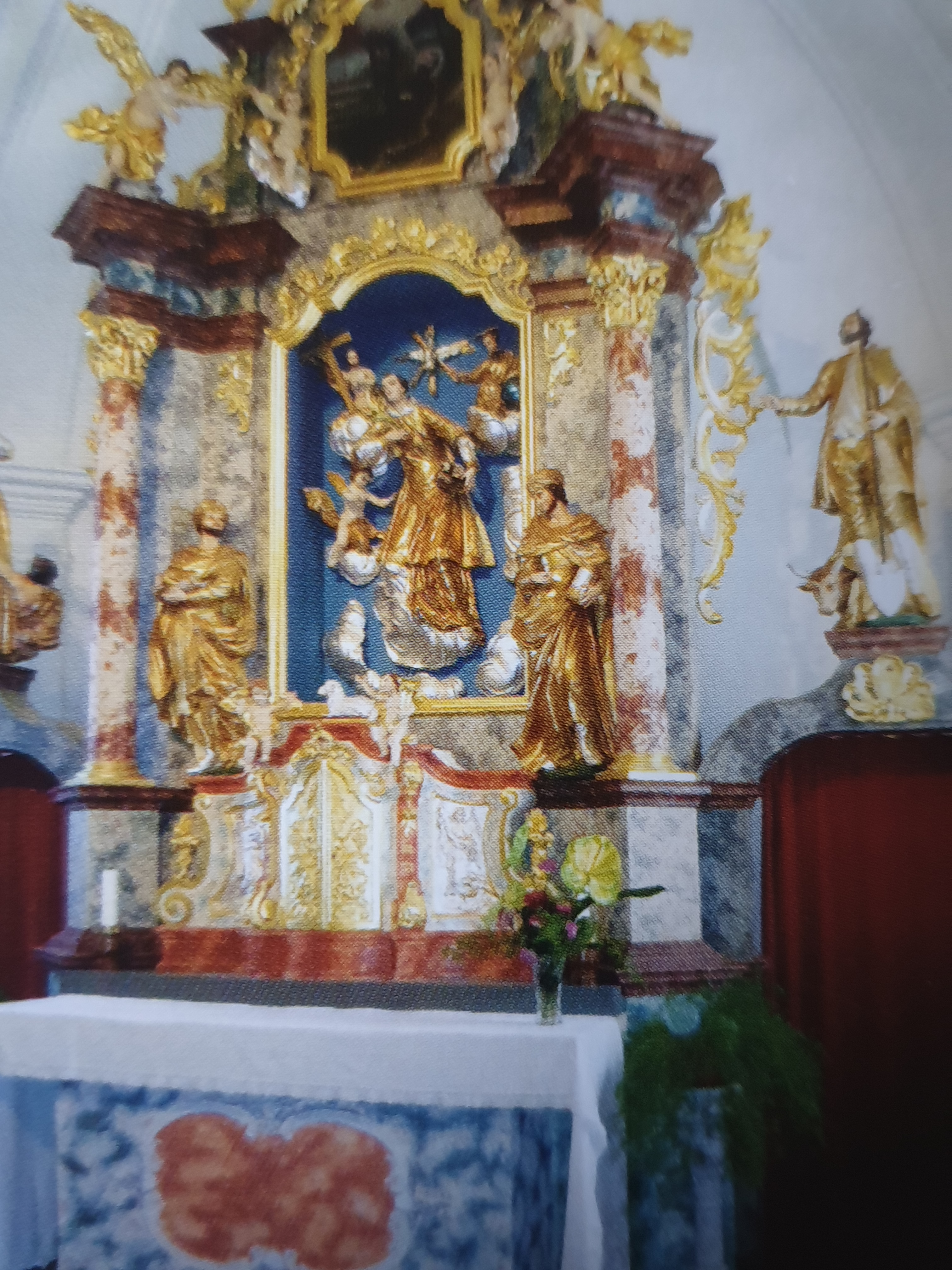 The main altar of the parish church of St. Stefan in Gomilsko, Slovenia.